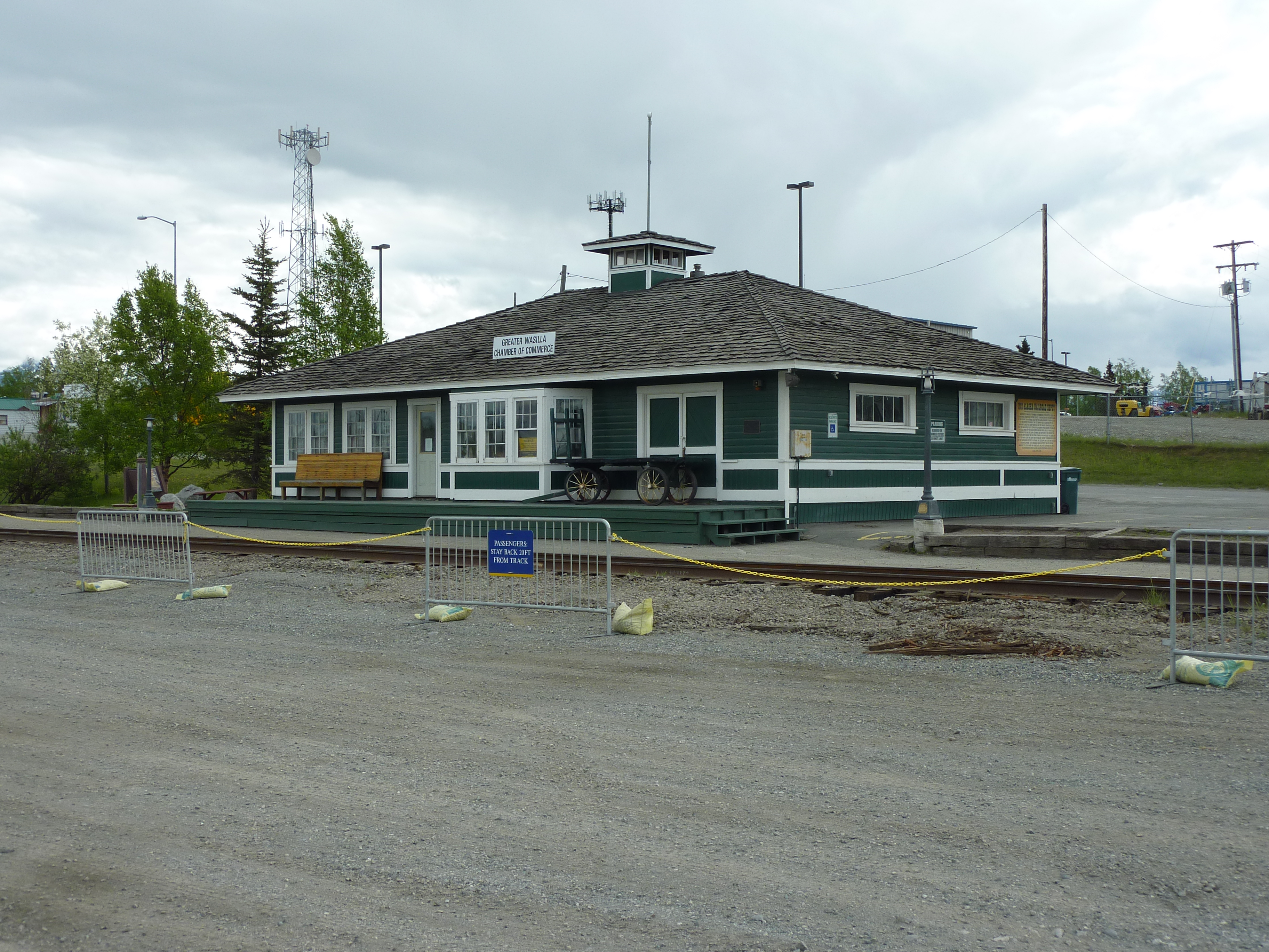 Railway station Wasilla, Alaska, USA, 2011